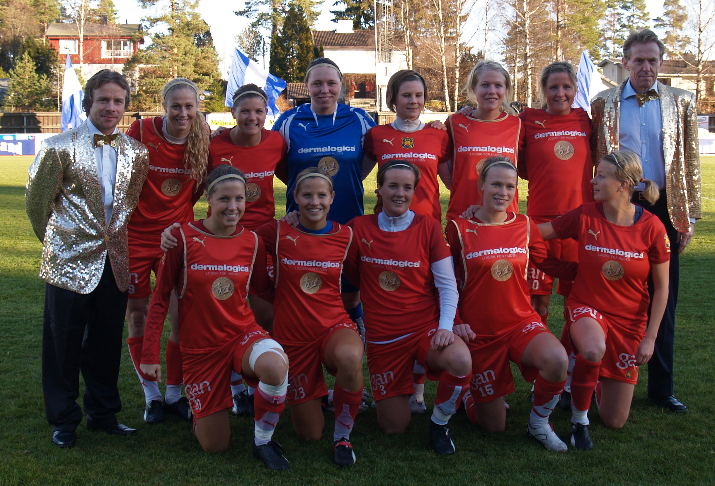 Røa wearing shirts with the gold medal on them, as they were not awarded their gold by the NFF.